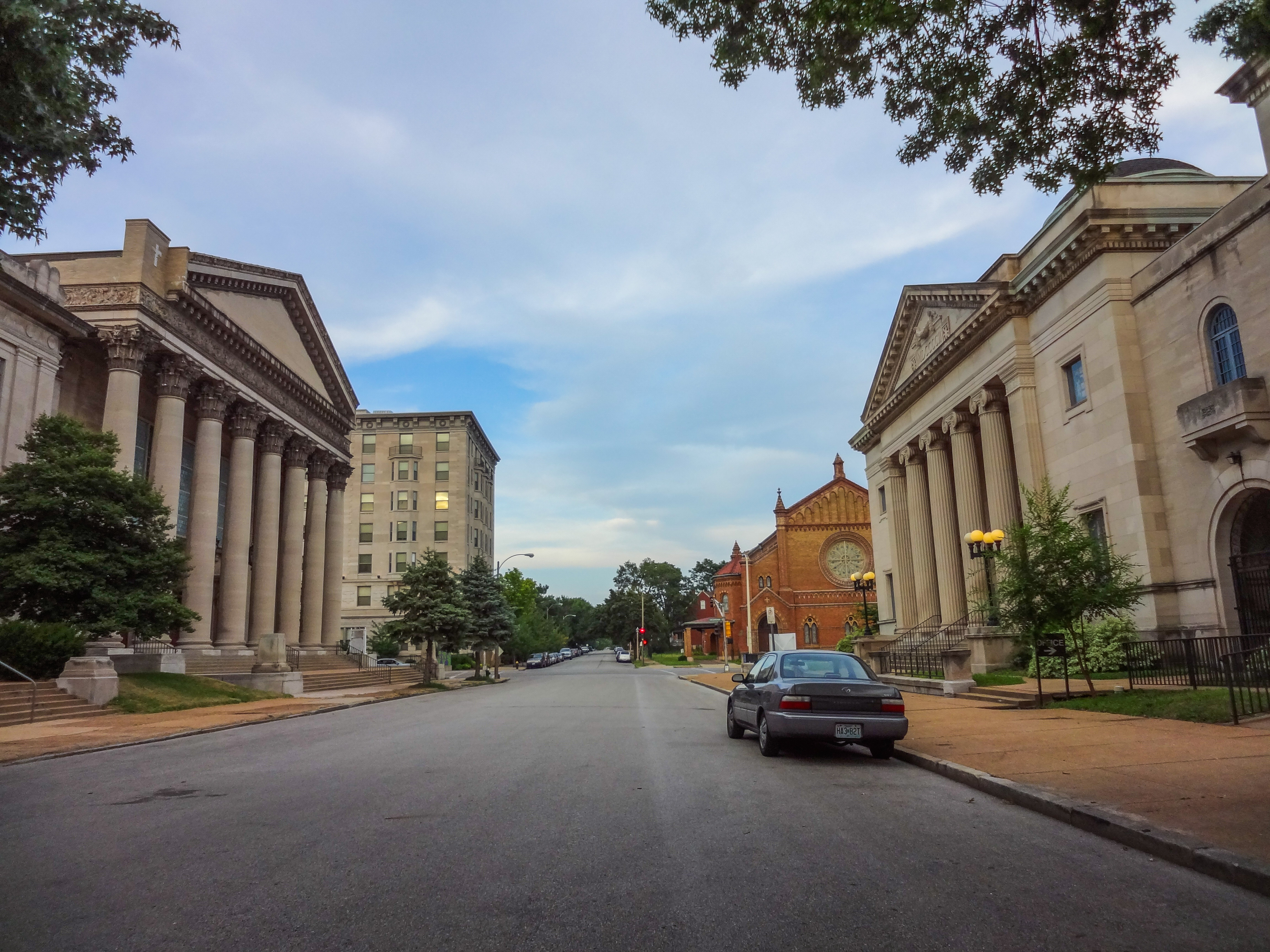 Holy Corner from Washington